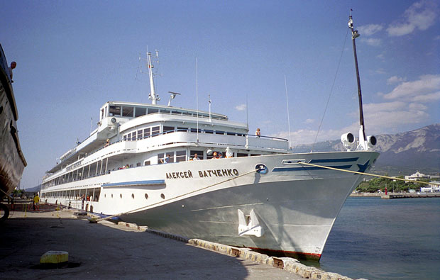 Aleksey Vatchenko 1985 Project 302 Yalta 2000